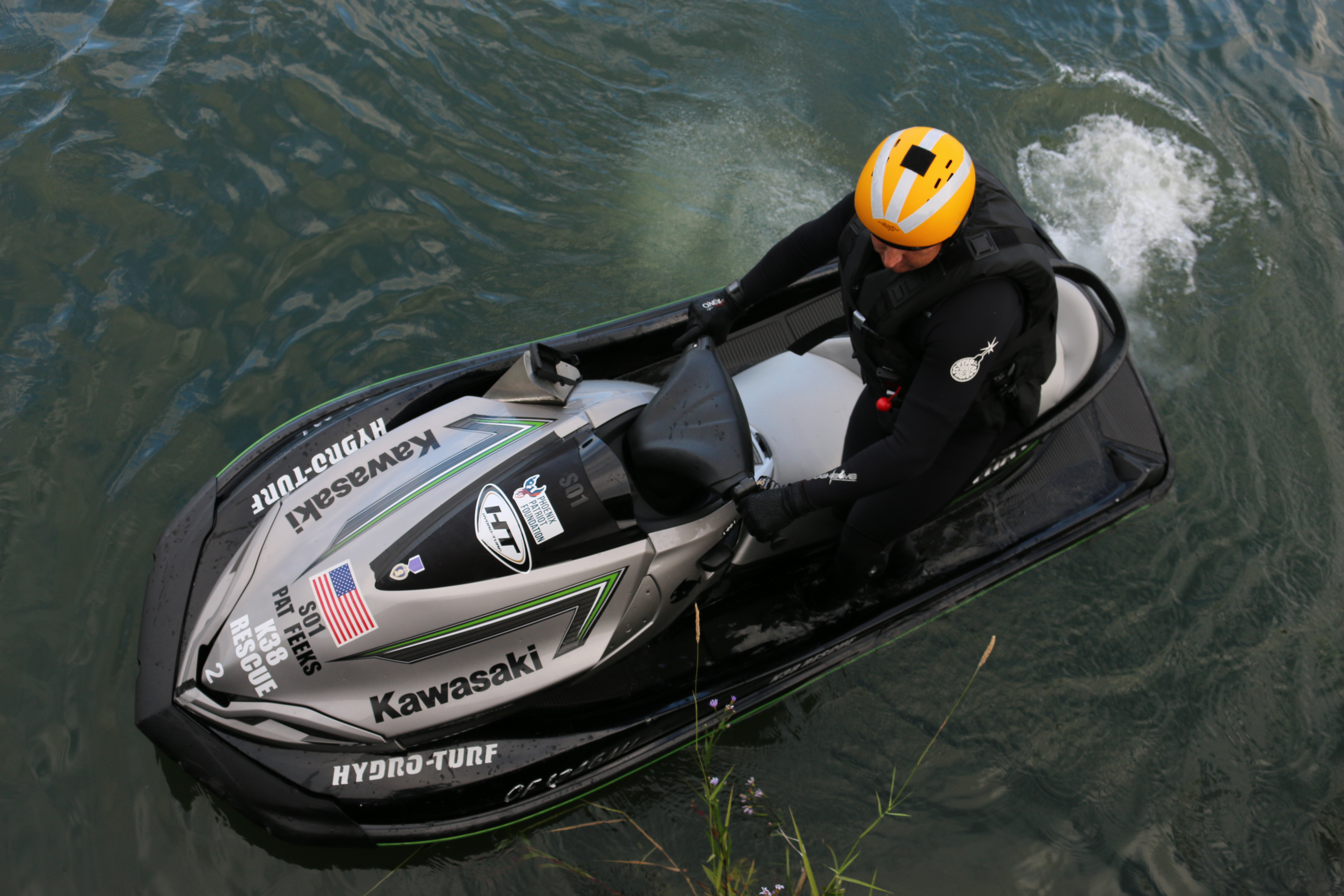 K38 Rescue Water Craft